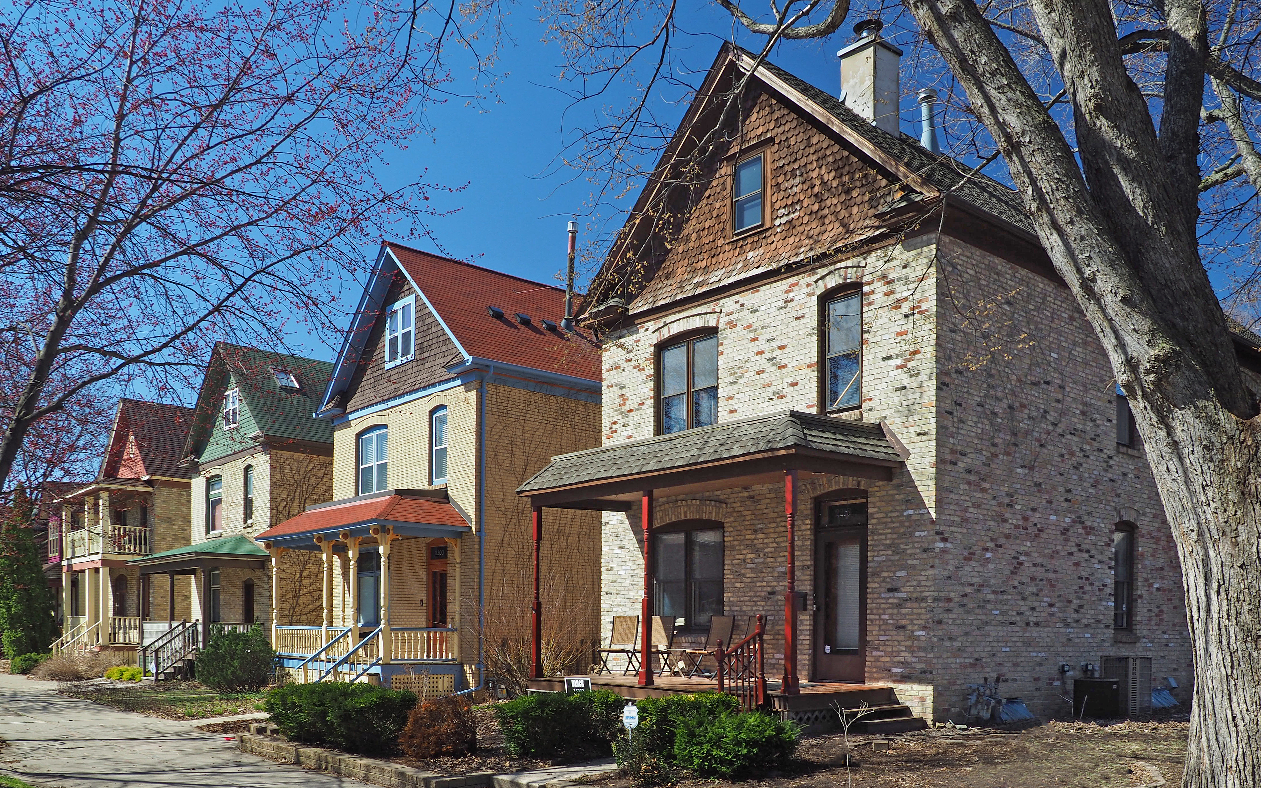 Four houses on Milwaukee Ave, Milwaukee Avenue Historic District, Minneapolis, Minnesota, USA. Viewed from the northeast.